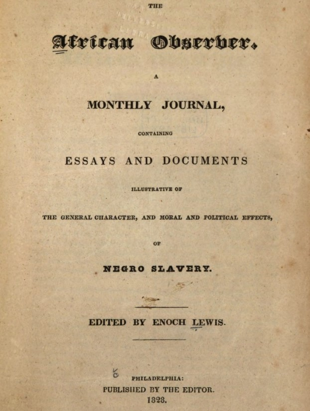 Front cover of an 1828 edition of the American anti-slavery newspaper, "The African Observer," which was produced by Quaker educator, mathematician and abolitionist Enoch Lewis in Philadelphia, Pennsylvania in 1827 and 1828.